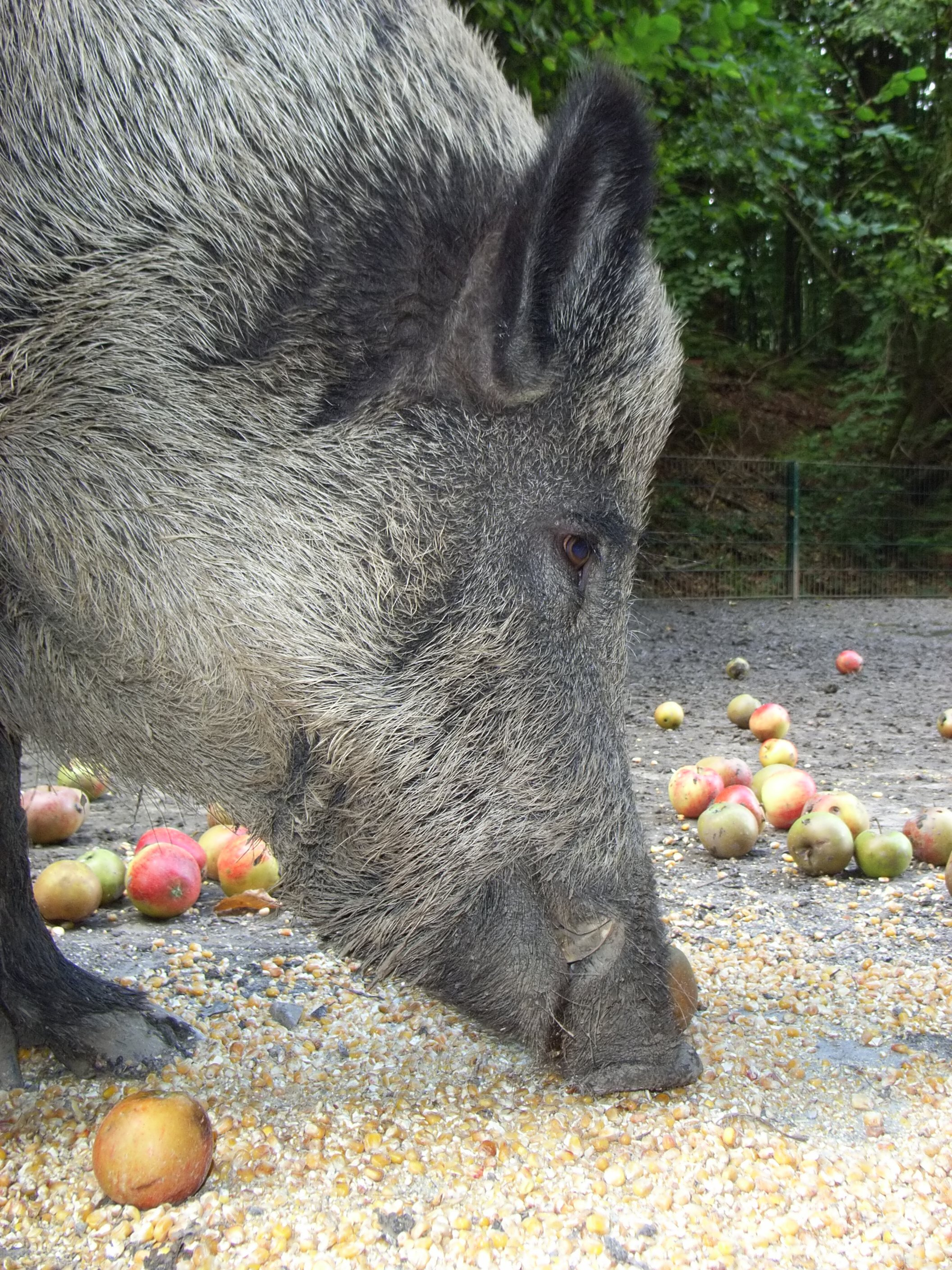 Wild Boar